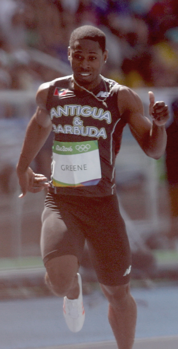 Men's 100 m sprint heats, Rio Olympics